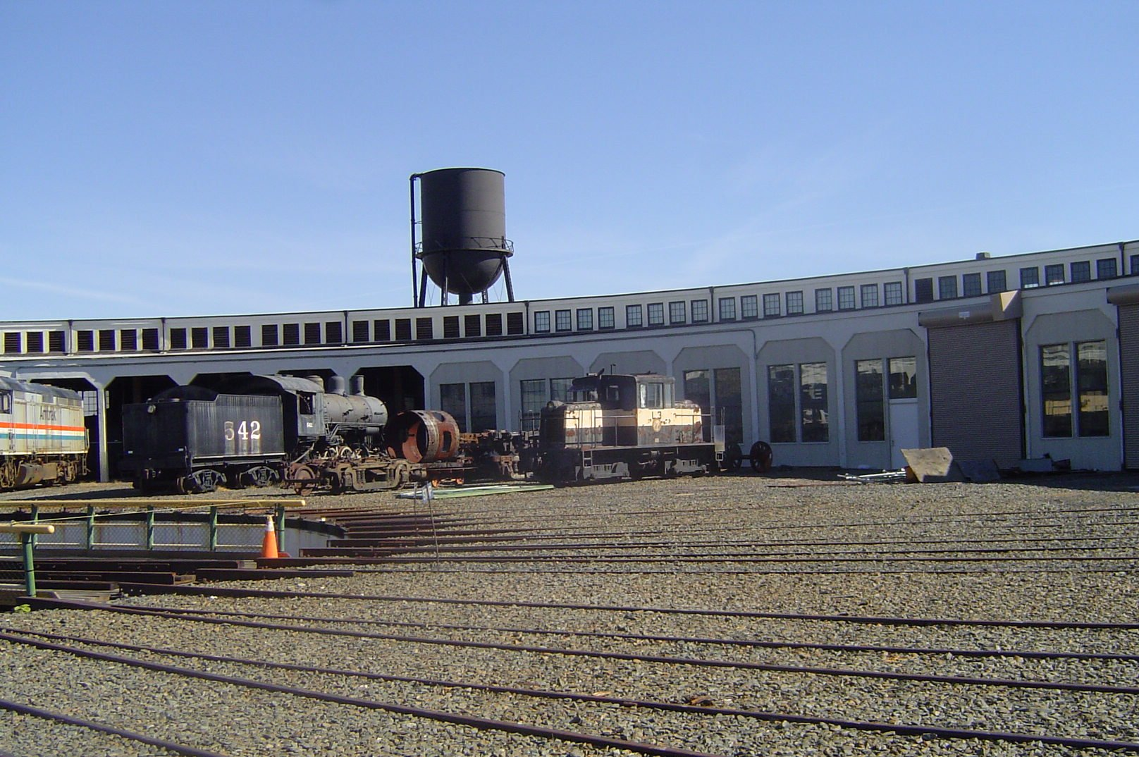 Locomotive turntable and roundhouse, North Carolina Transportation Museum, Spencer, North Carolina